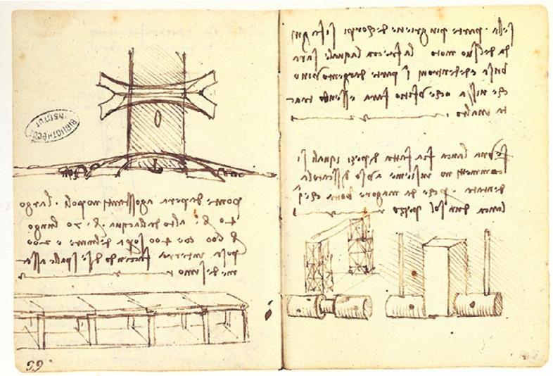 Golden Horn Bridge designed by Leonardo da Vinci in 1502. Paris Manuscript L, Folio 65v and 66r